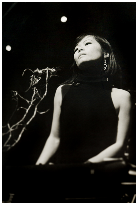 Yuki from Asobi Seksu. Shot at Be the Riottt Music Festival, San Francisco, November 2006. Taken using Mamiya 645 with Ilford Delta 3200 loaded.